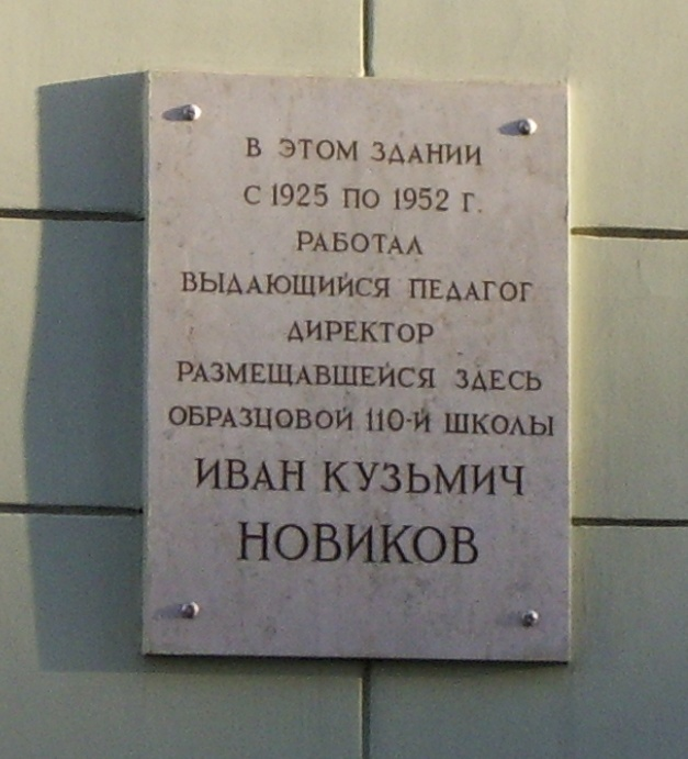 Memorial wall sign "Ivan Novikov" on the scool 110 in Merzljakovsky Lane, Moscow